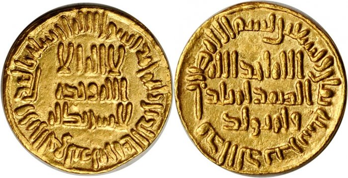 Umayya Sulayman Dinar